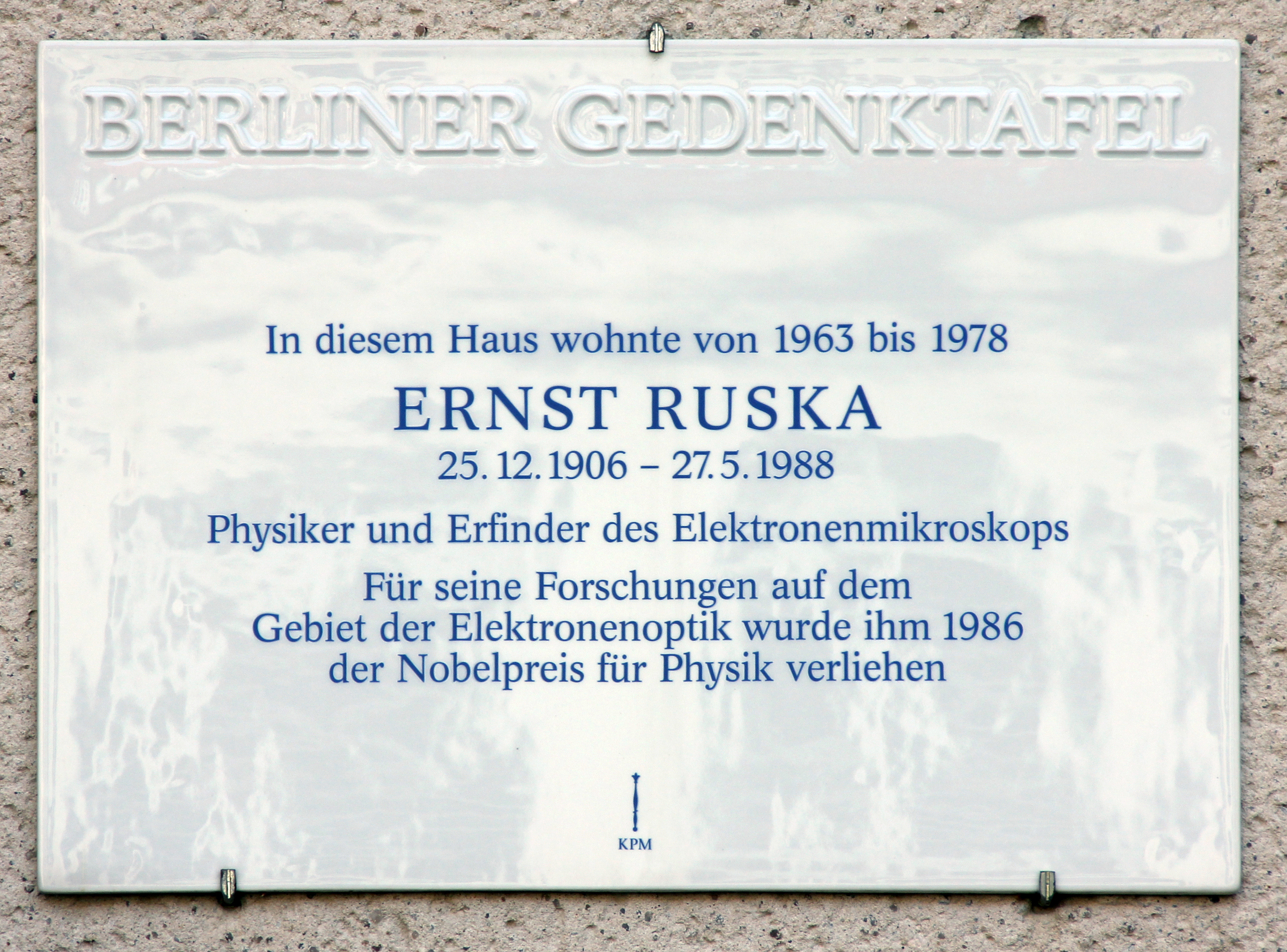 Berlin memorial plaque, Ernst Ruska, Falkenried 7, Berlin-Dahlem, Germany